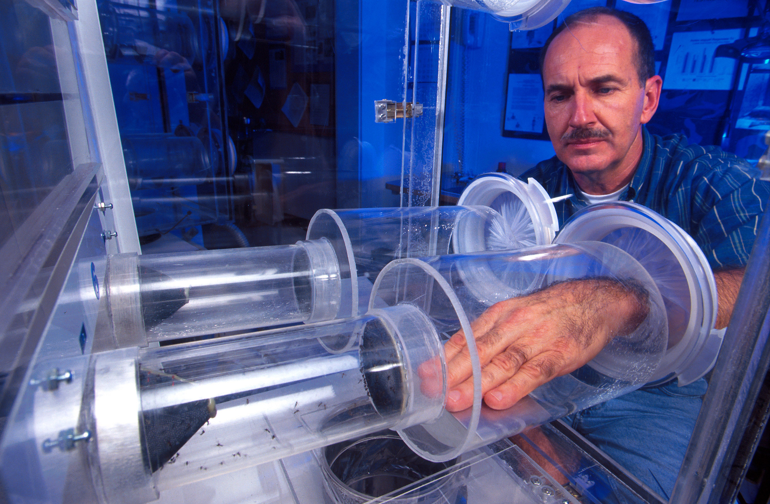 Entomologist Donald Barnard demonstrates the attraction of female yellow fever mosquitoes to his hand in an olfactometer. The olfactometer contains a screen separating the attractant (in this case, his hand) from the mosquitoes. Photo by Peggy Greb.